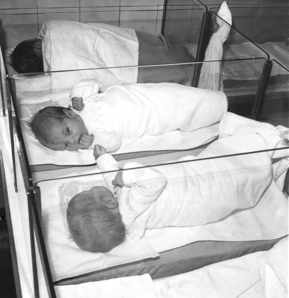 Maternity hospital Huize Ooievaar (House Stork), J.W. Frisostraat 16, Utrecht in 1967. Dormitory with beds for the baby's.